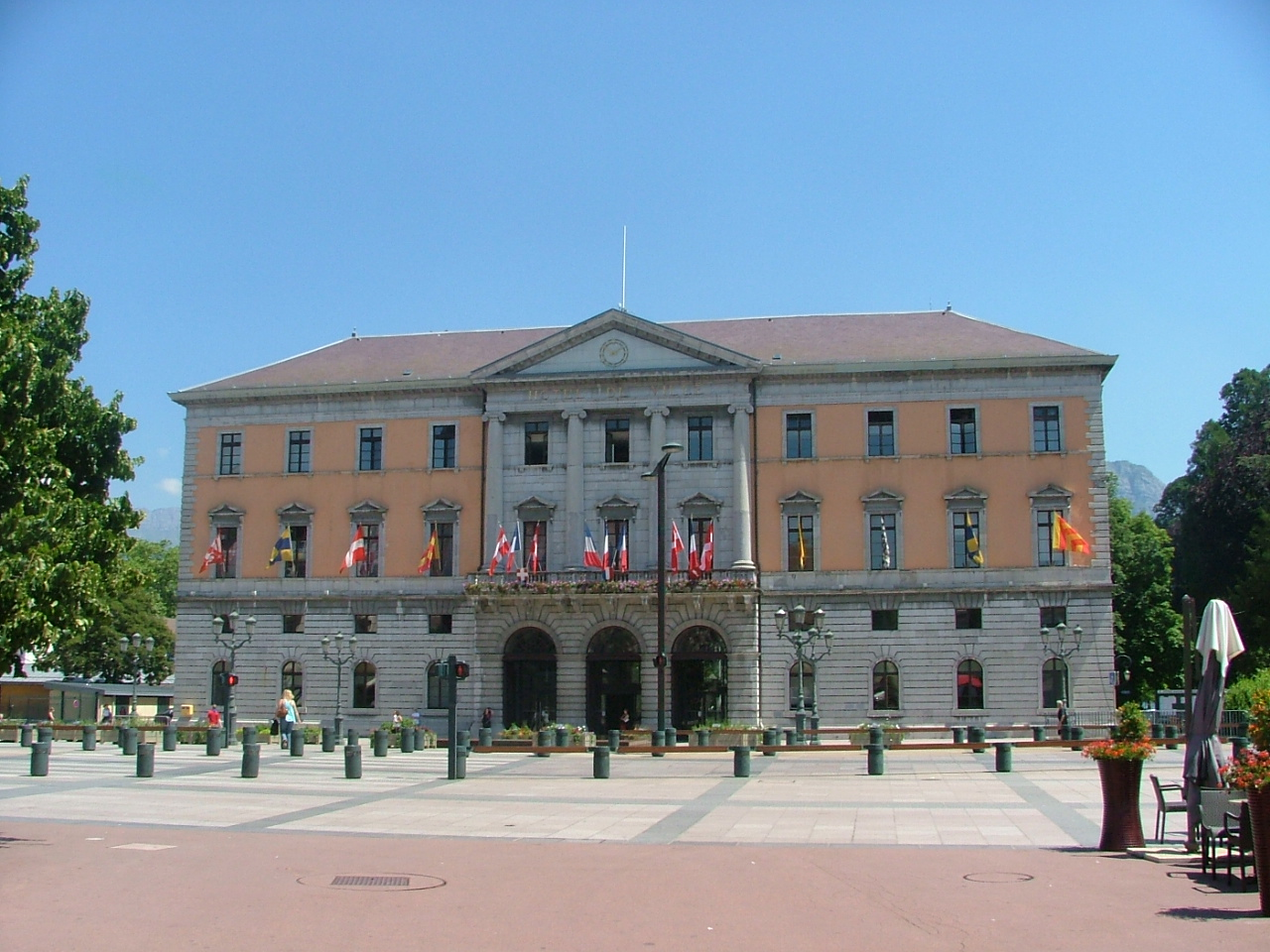 View of Annecy, France